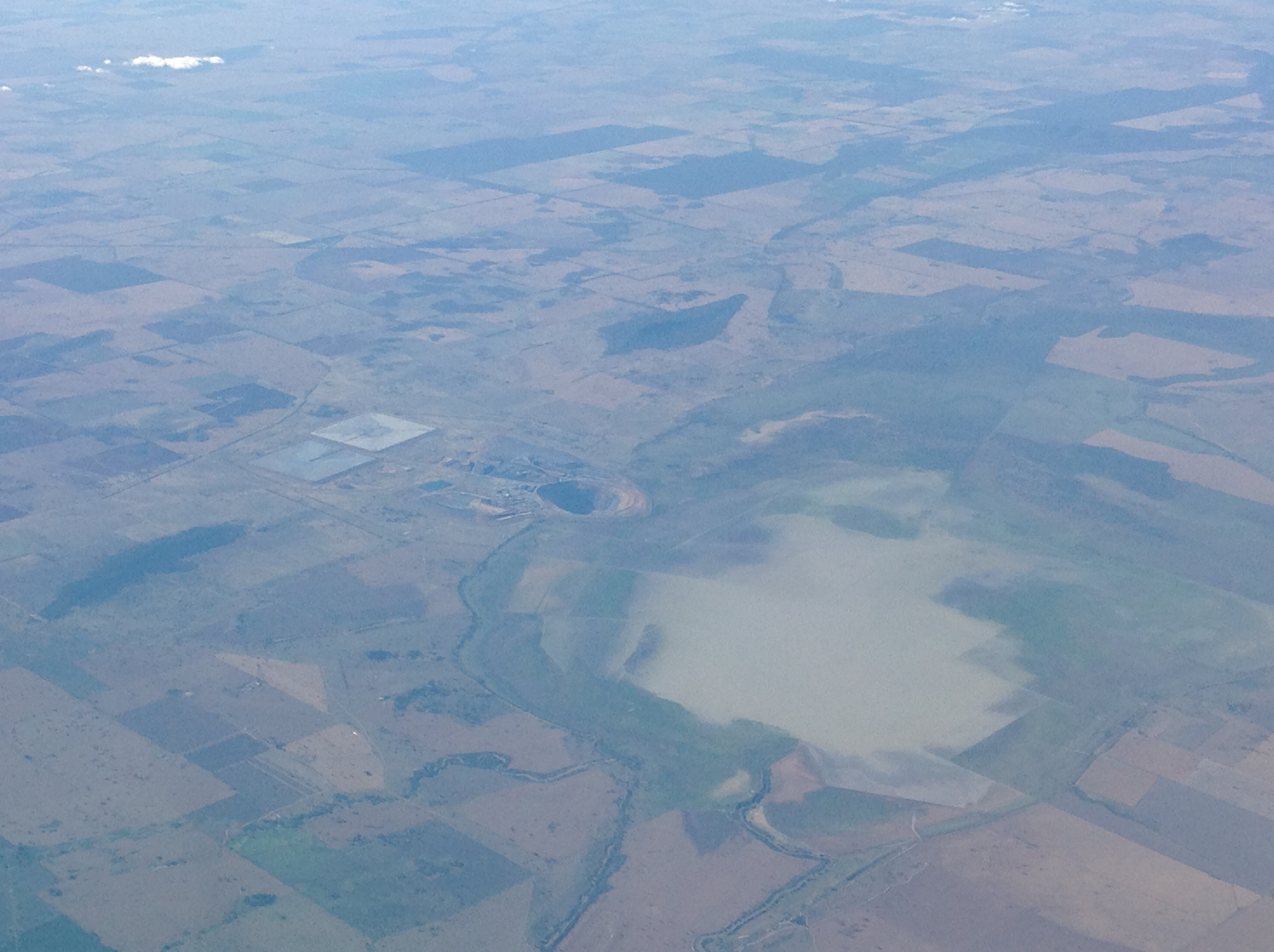 Lake Cowal as seen from a Qantas plane, November 2015.